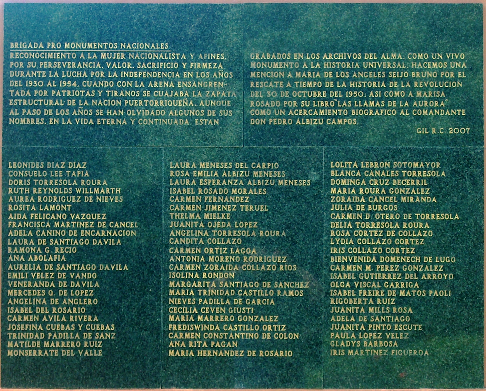 Plaque on Jayuya Monument in honor of the Puerto Rican women participants in the 1950 Jayuya Uprising — a Nationalist revolt in Puerto Rico. The Monument is located in the Cruzados' subsection of the Aguilar Ward in Mayagüez, southwestern Puerto Rico.